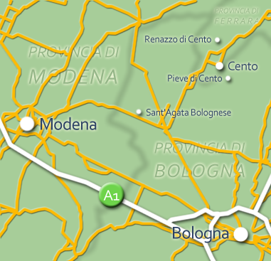 A map of part of the region of Emilia-Romagna, centered around the provinces of Bologna, Ferrara, and Modena, showing the communes and cities key to the history of automaker Automobili Lamborghini.